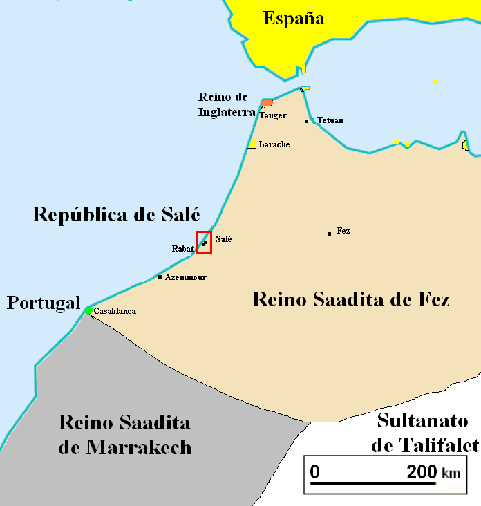 Locating the Republic of Salé (1627-1668) in 17th century Morroco